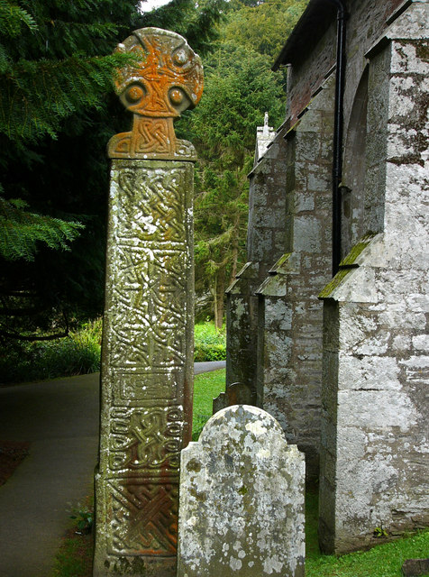 Nevern churchyard This is probably the finest High Cross in Wales, and was carved about 1000 AD.